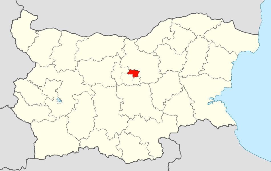 Location map of Dryanovo Municipality within Gabrovo Province, Bulgaria. Equirectangular projection, N/S stretching 130 %. Geographic limits of the map: N: 44.4° N S: 41.1° N W: 22.1° E E: 28.9° E